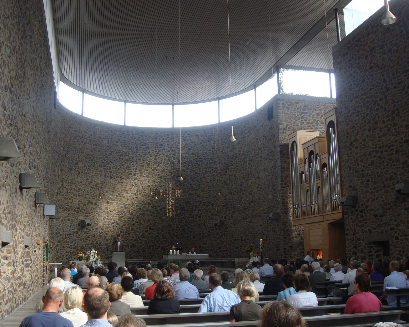 St. Martin, Idstein, service on 4 September 2011